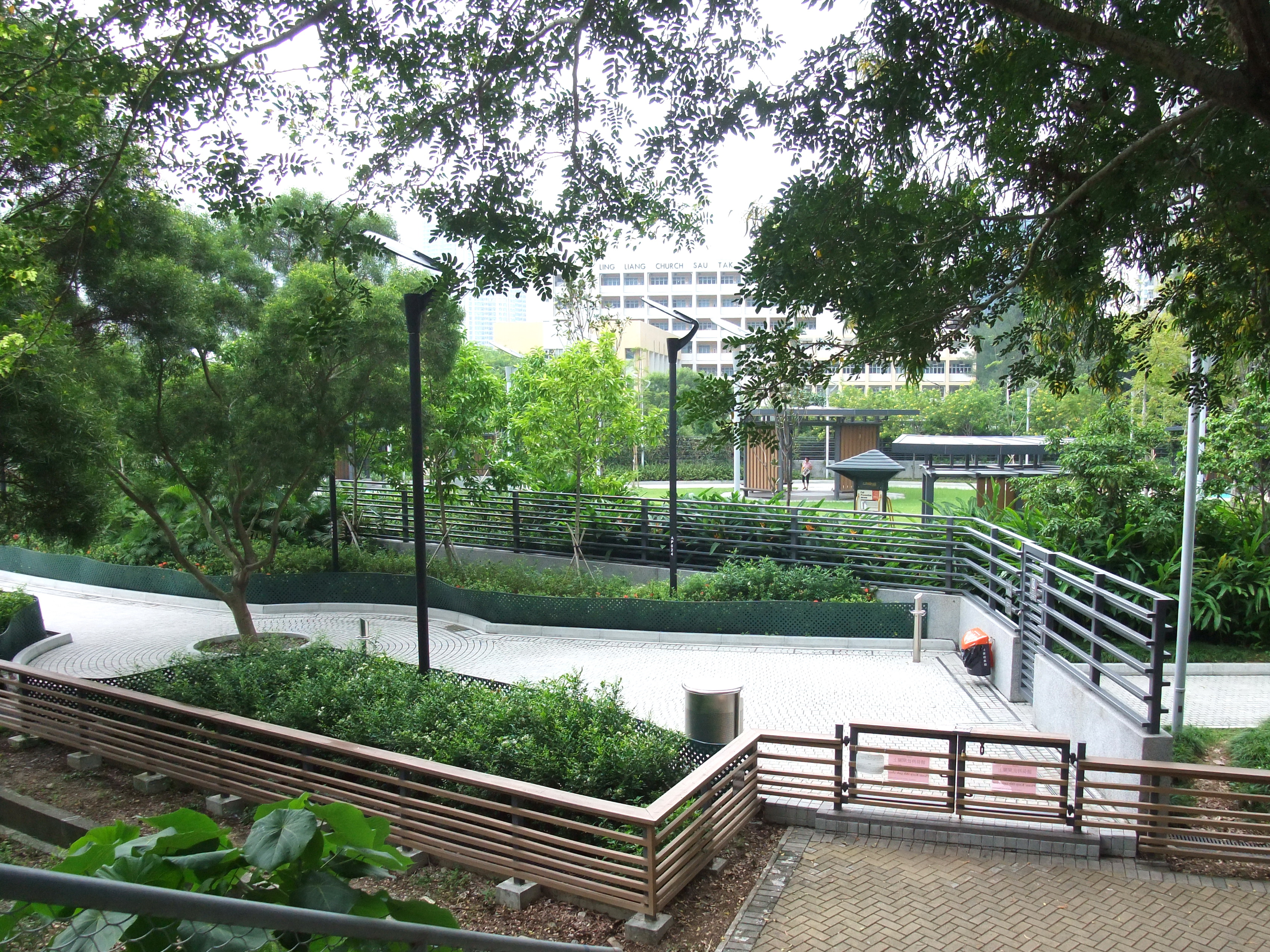 The Pet Garden within the Tung Chung North Park, Tung Chung, New Territories, Hong Kong.